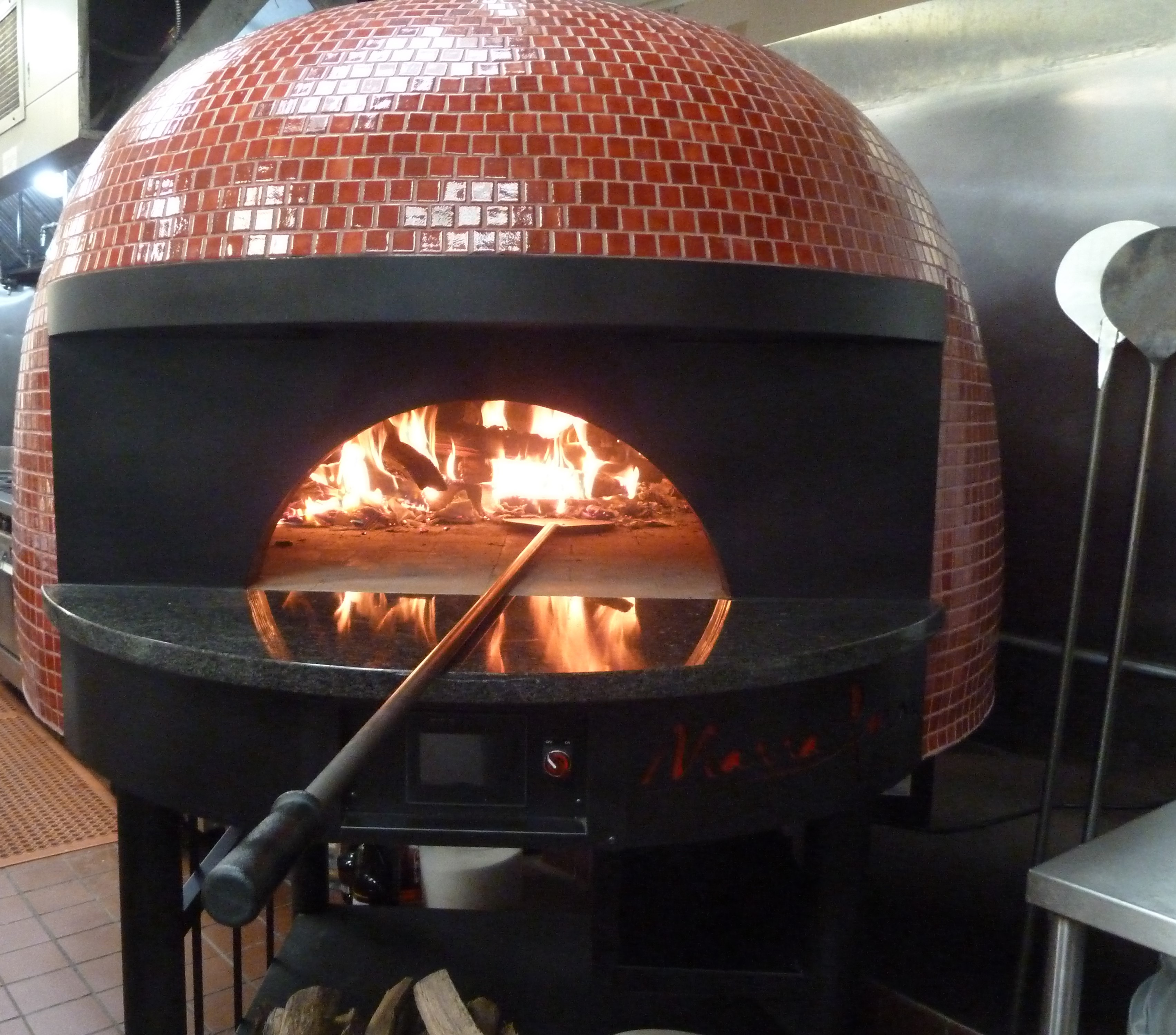 Modern wood-fired oven.